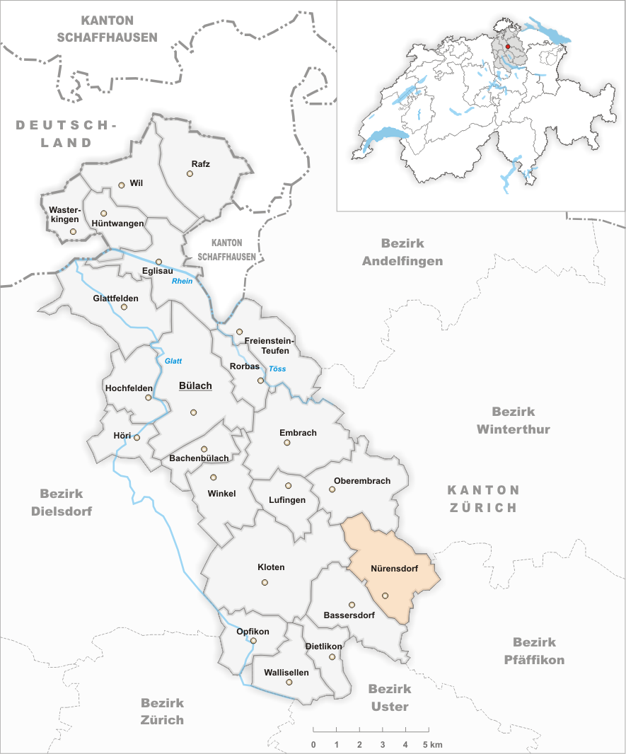 Municipality Nürensdorf